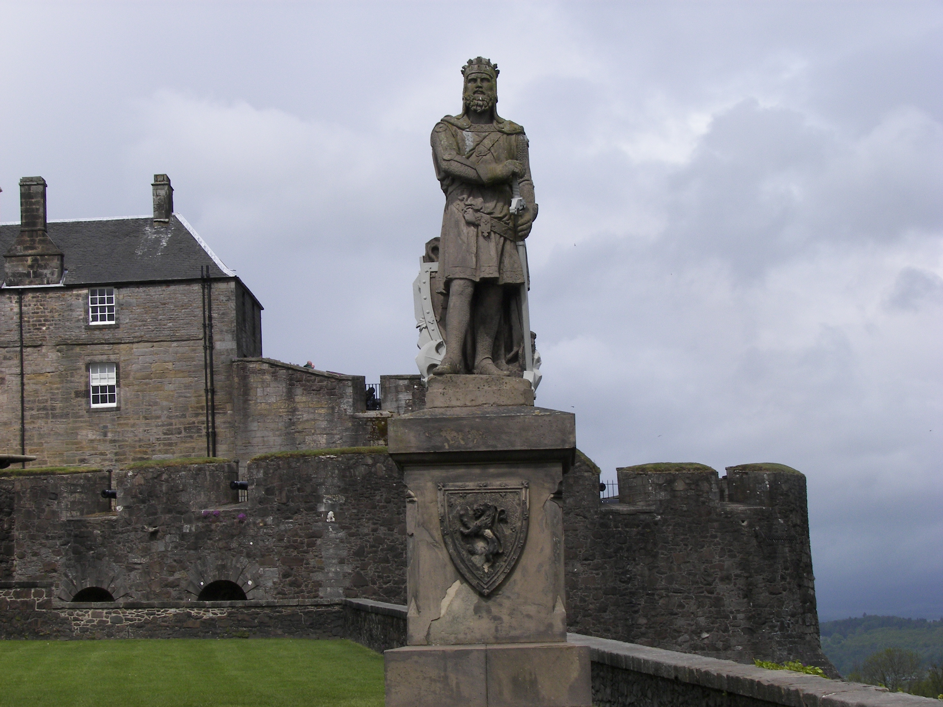 Statue of Robert the Bruce outside Stirling Castle.